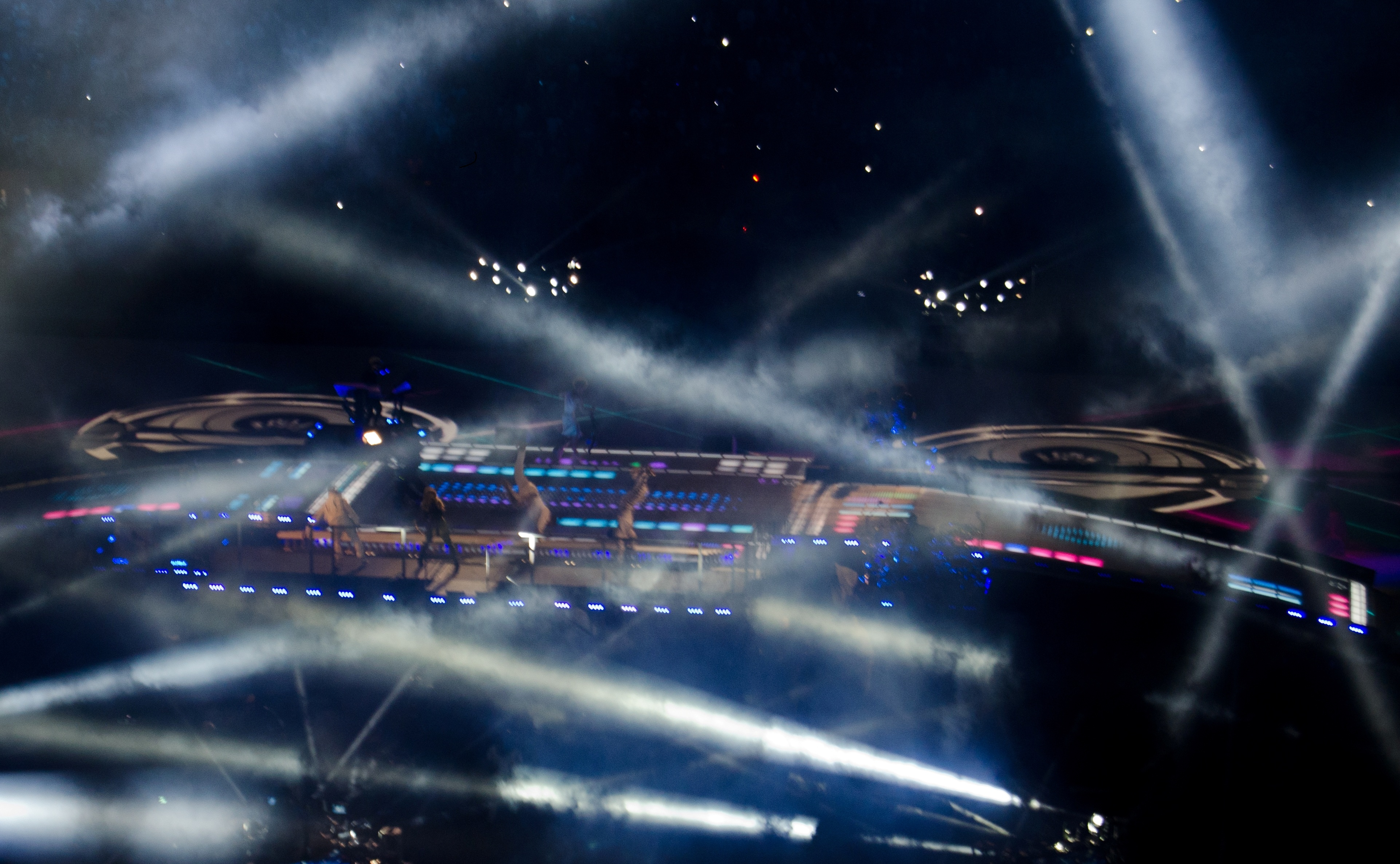 The Super Bowl 2012 stage during performance of the song "Music"